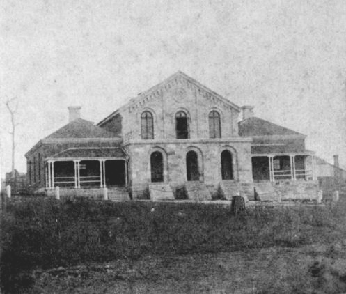 Designed by Colonial Architect Charles Tiffin and built in 1859, The Ipswich Court House still stands today.